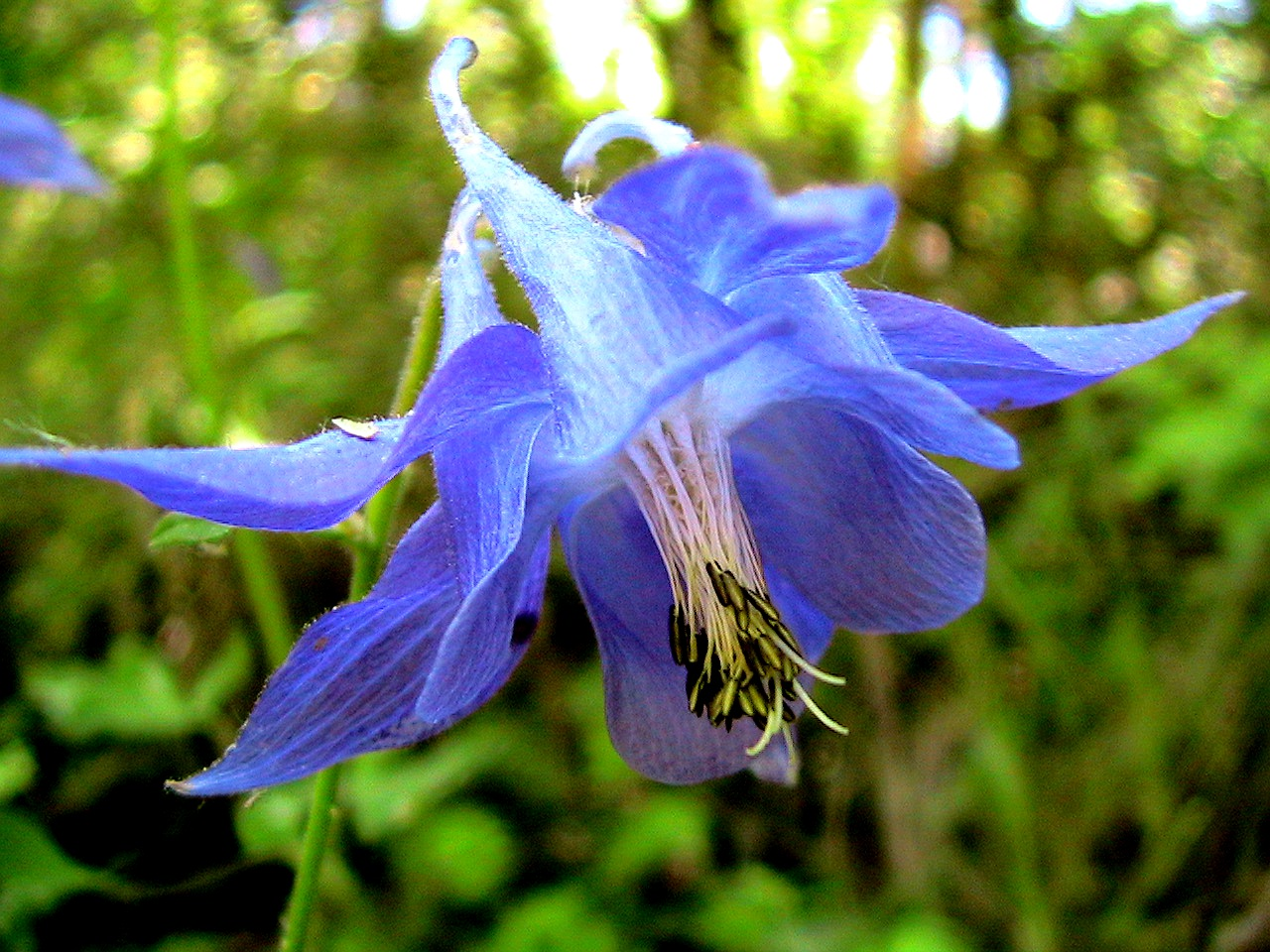 Aquilegia vulgaris. In Torà (Segarra - Catalunya). To 580 m. altitude